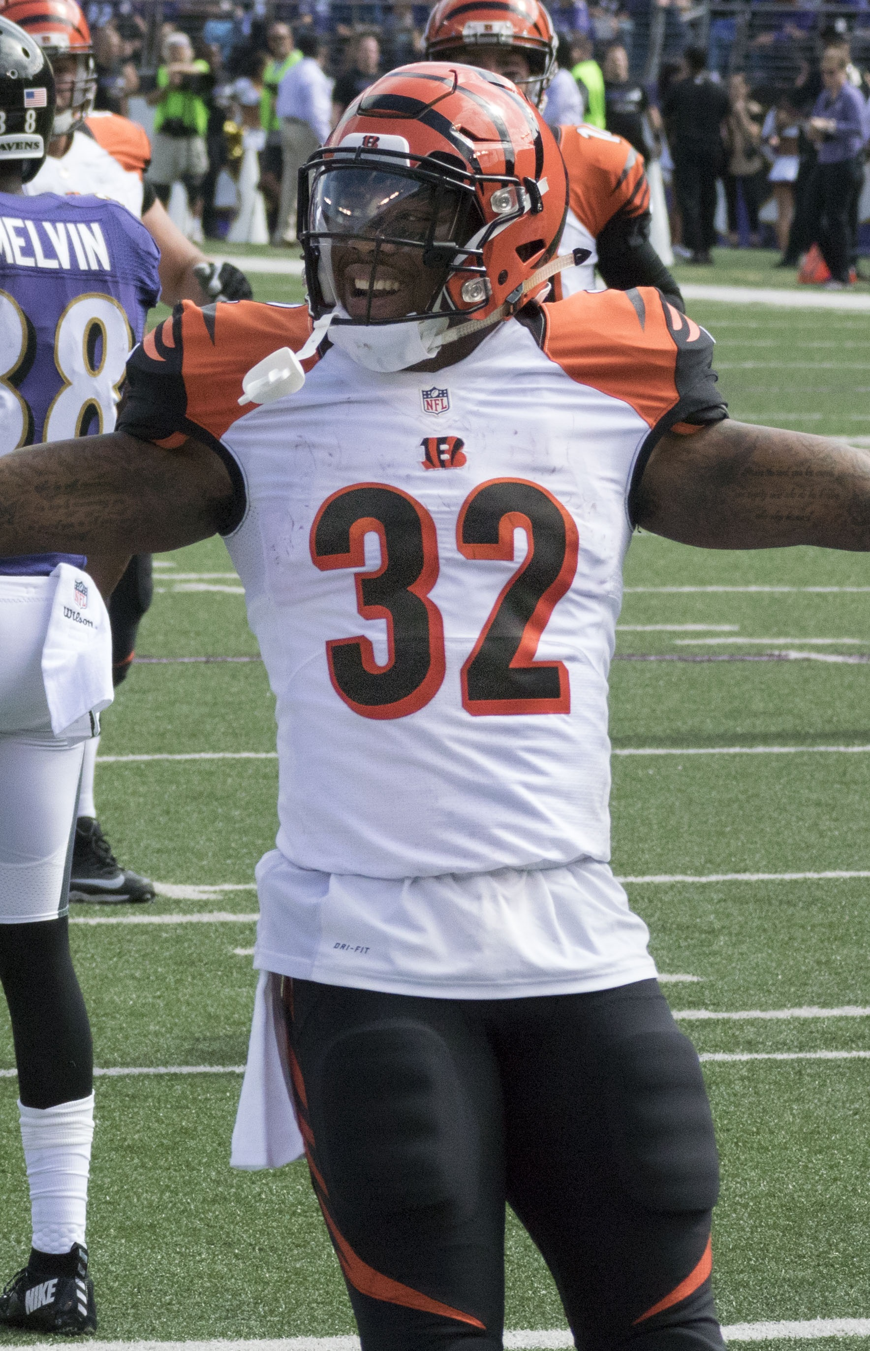 Bengals at Ravens 9/27/15